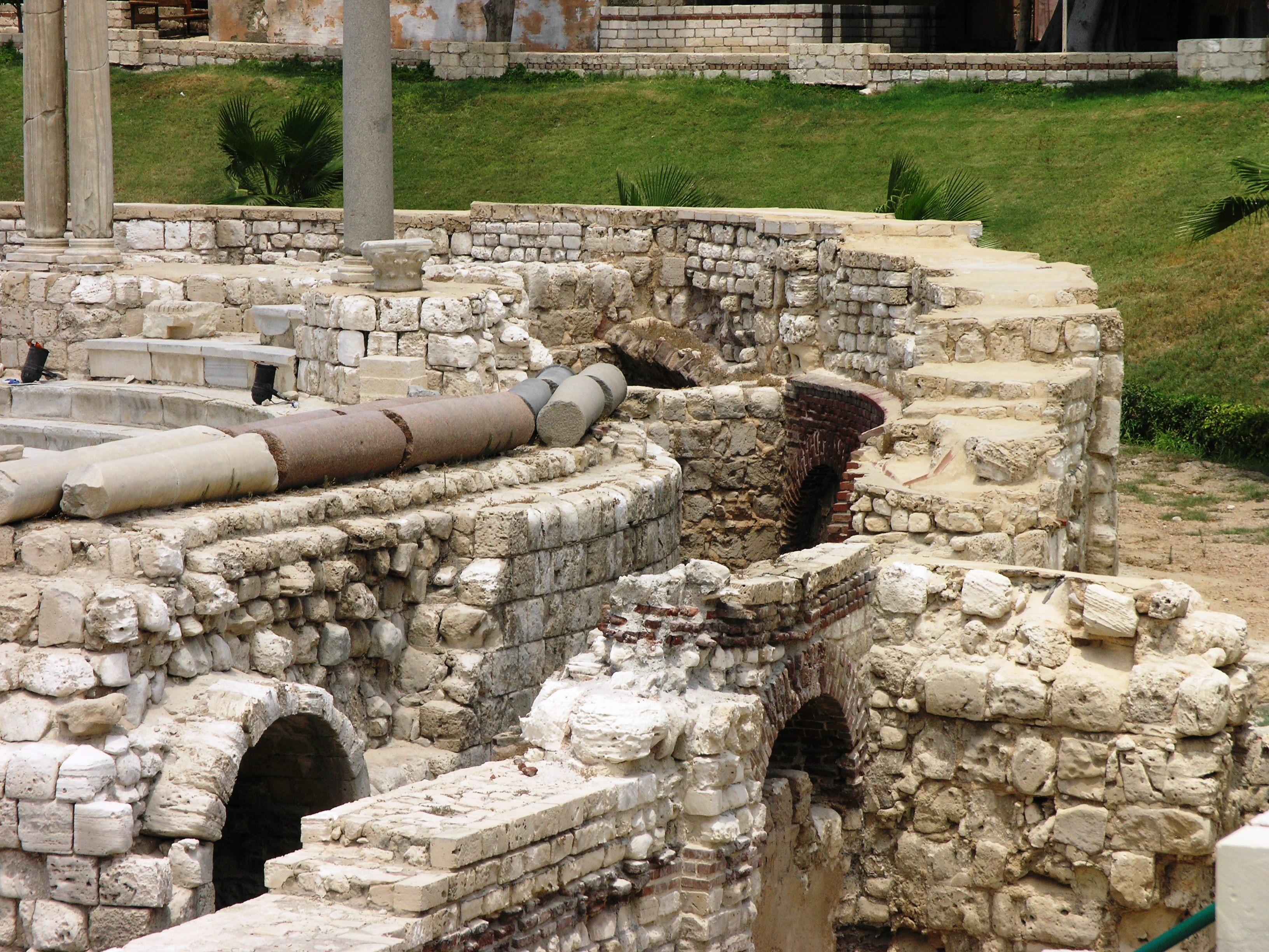 Alexandria - Roman Amphitheater - close up view showing arches